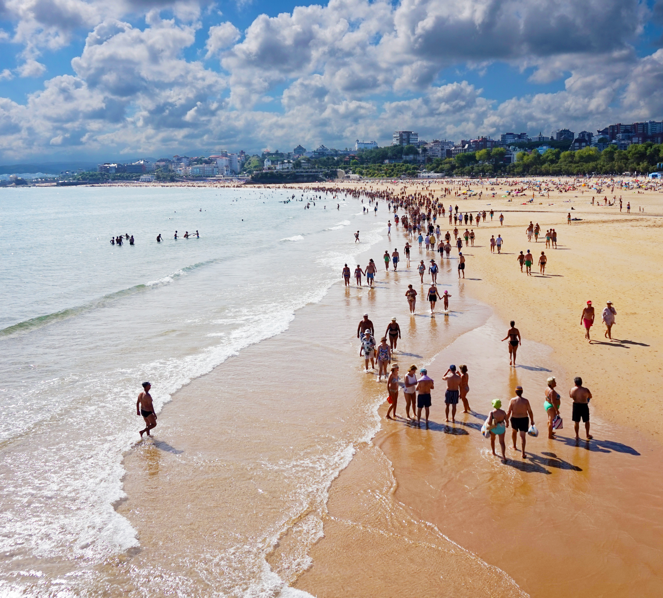 Beach in Santander, Spain. This photograph was taken with a Sony Alpha a5000.